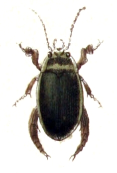 Graphoderus austriacus, from Calwer's Käferbuch, Table 7, Picture 5. Taxonomy was updated to 2008, using mostly the sites Fauna Europaea and BioLib. Please contact Sarefo if the determination is wrong!